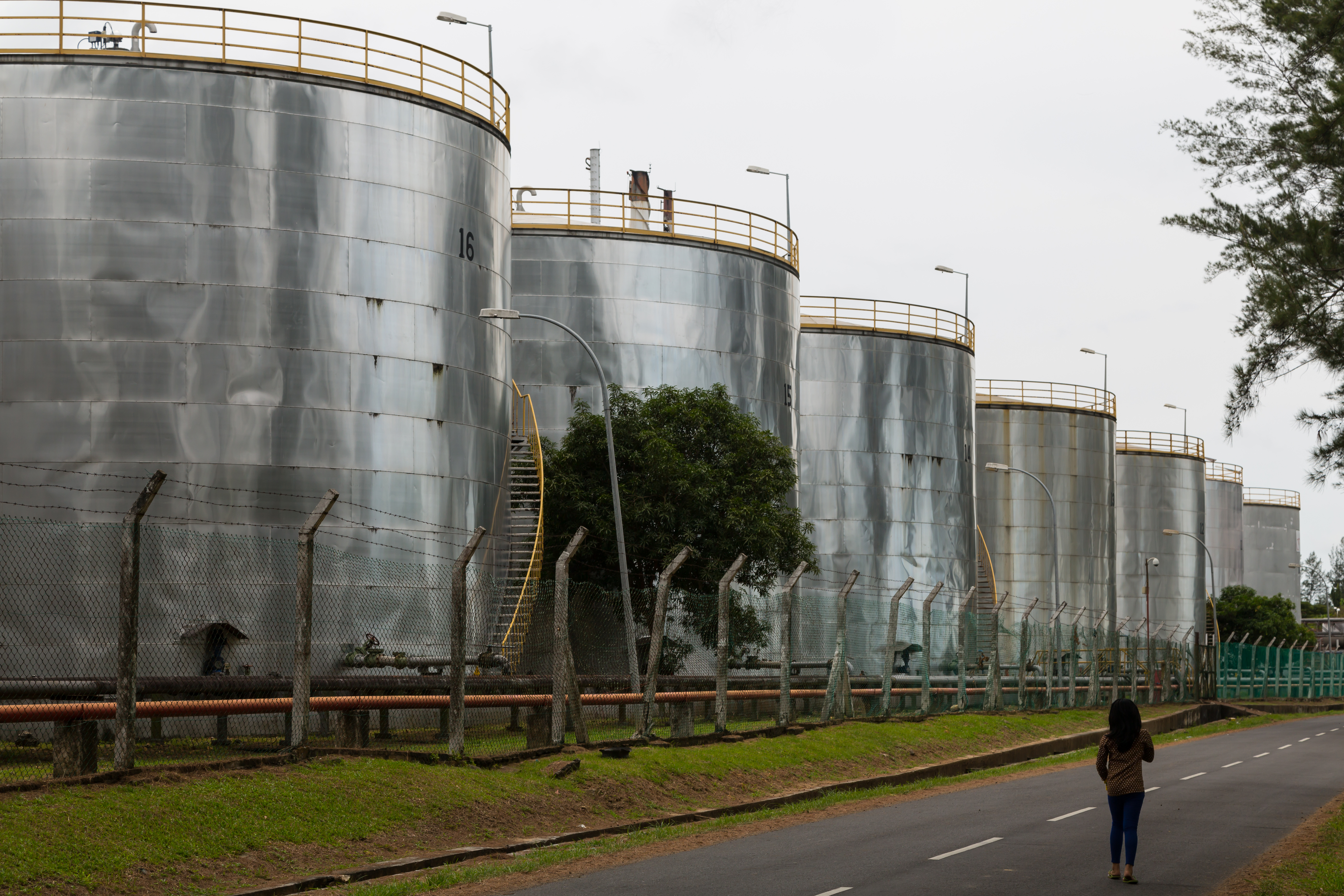 Tunku, Sabah: Palmoil storage tanks of "Felda Vegetable Oil Products Sdn Bhd" in Bandar Sahabat